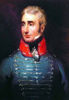 An oil painting of James Achilles Kirkpatrick (1764-1819), Lieutenant Colonel in the British East India company and it's resident in the princely state of Hyderabad from 1798 to 1805.